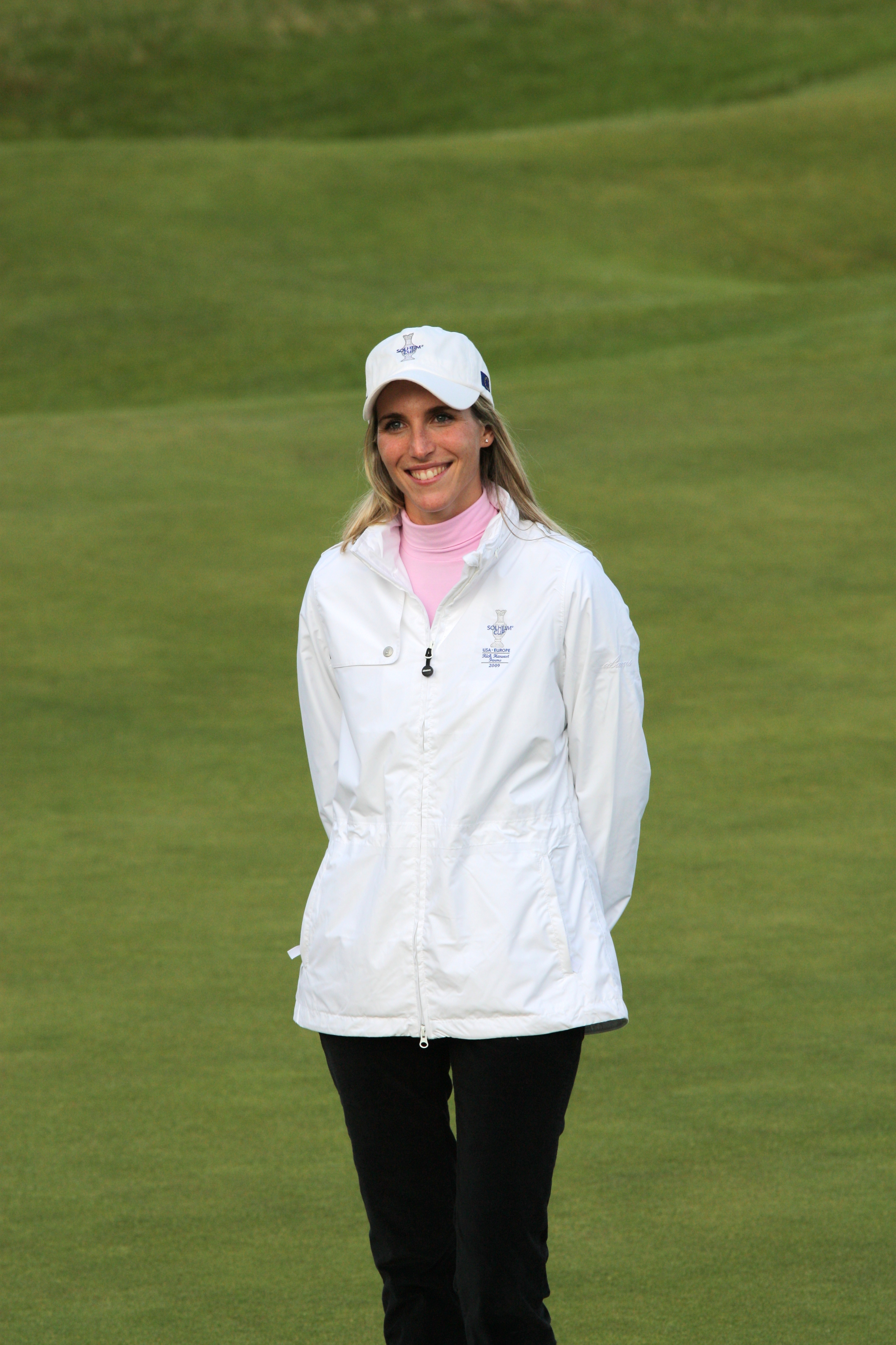 LYTHAM ST ANNES, UNITED KINGDOM - AUGUST 02: Diana Luna of Italy, member of the European Solheim Cup Team, posing for a photograph after announcement of Solheim Cup teams, which followed final round of the 2009 Ricoh Women's British Open held at Royal Lytham & St Annes on August 2, 2009 in Lytham St Annes, England. (Photo by Wojciech Migda)